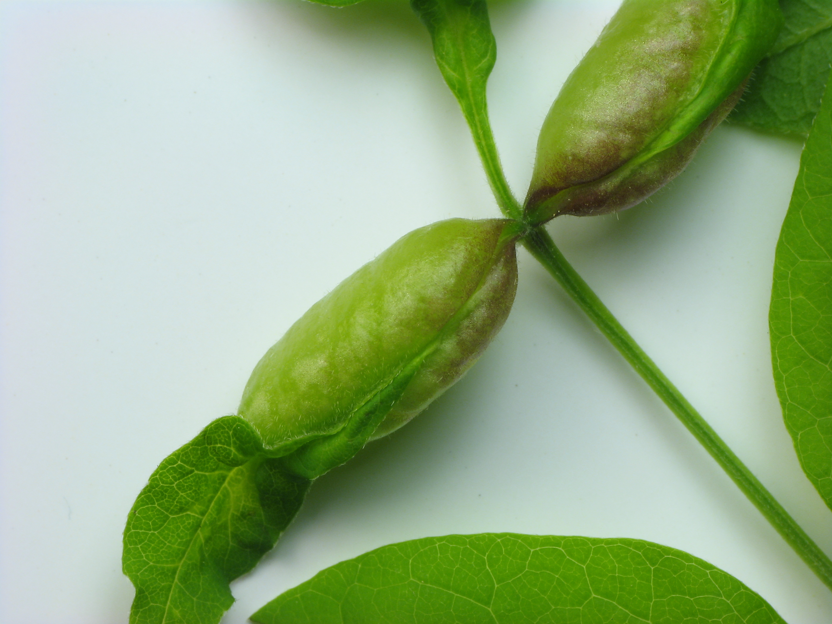 Dasineura tumidosae galls on ash tree (Fraxinus). Pennypack Restoration Trust, Montgomery County, Pennsylvania, USA.